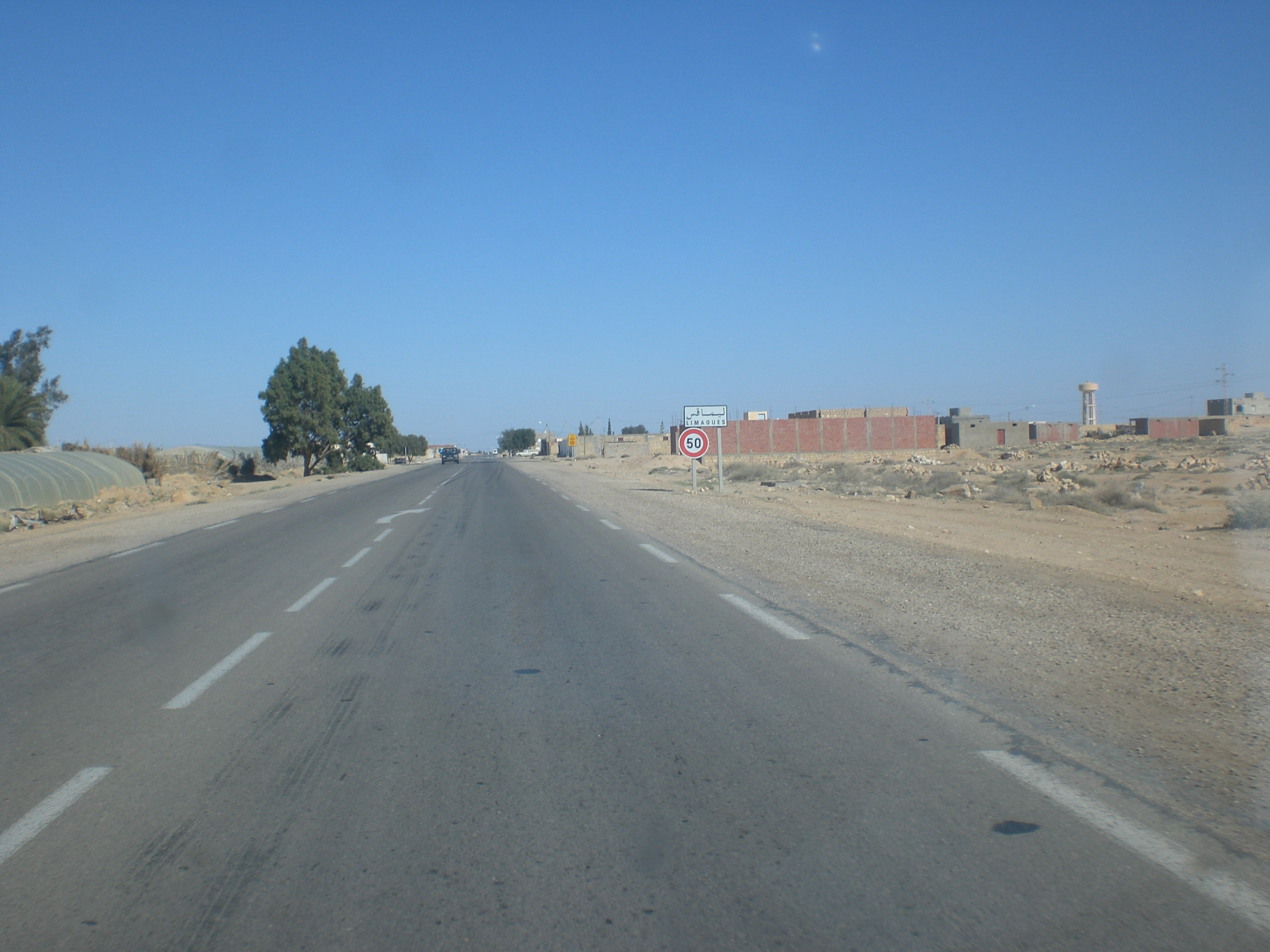 A Tunisian vilage, Limaguès